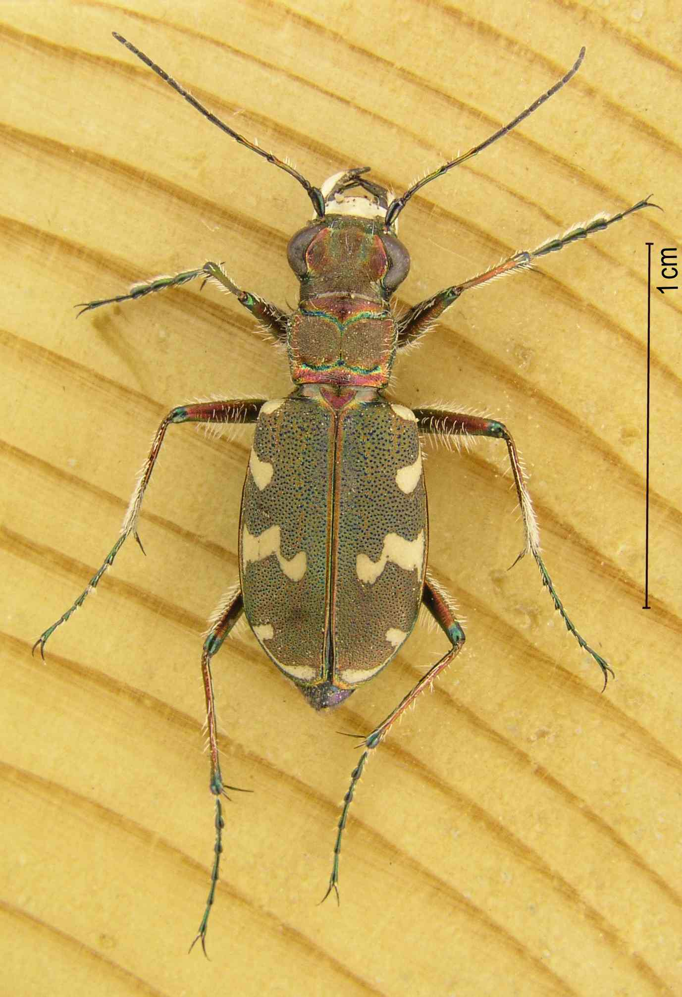 Cicindela Hybrida, collected NL: Flevopolder, Roggebotzand, 5-V-2005 on sandy path on open spot in mixed forest. Photo, Det & leg E. van Herk 2005 Photo may be used according to the terms of the GNU FDL. Camera: Olympus Camedia C-5050 Zoom, post-exposure processing with Jasc Paintshop Pro.